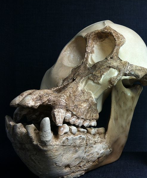 Gairebé humans (in Catalan): Almost humans exhibit at Institut Català de Paleontologia Miquel Crusafont, in Sabadell (Catalonia) 2012-2013 : Sivapithecus sivalensis, GSP 15000 (replica)